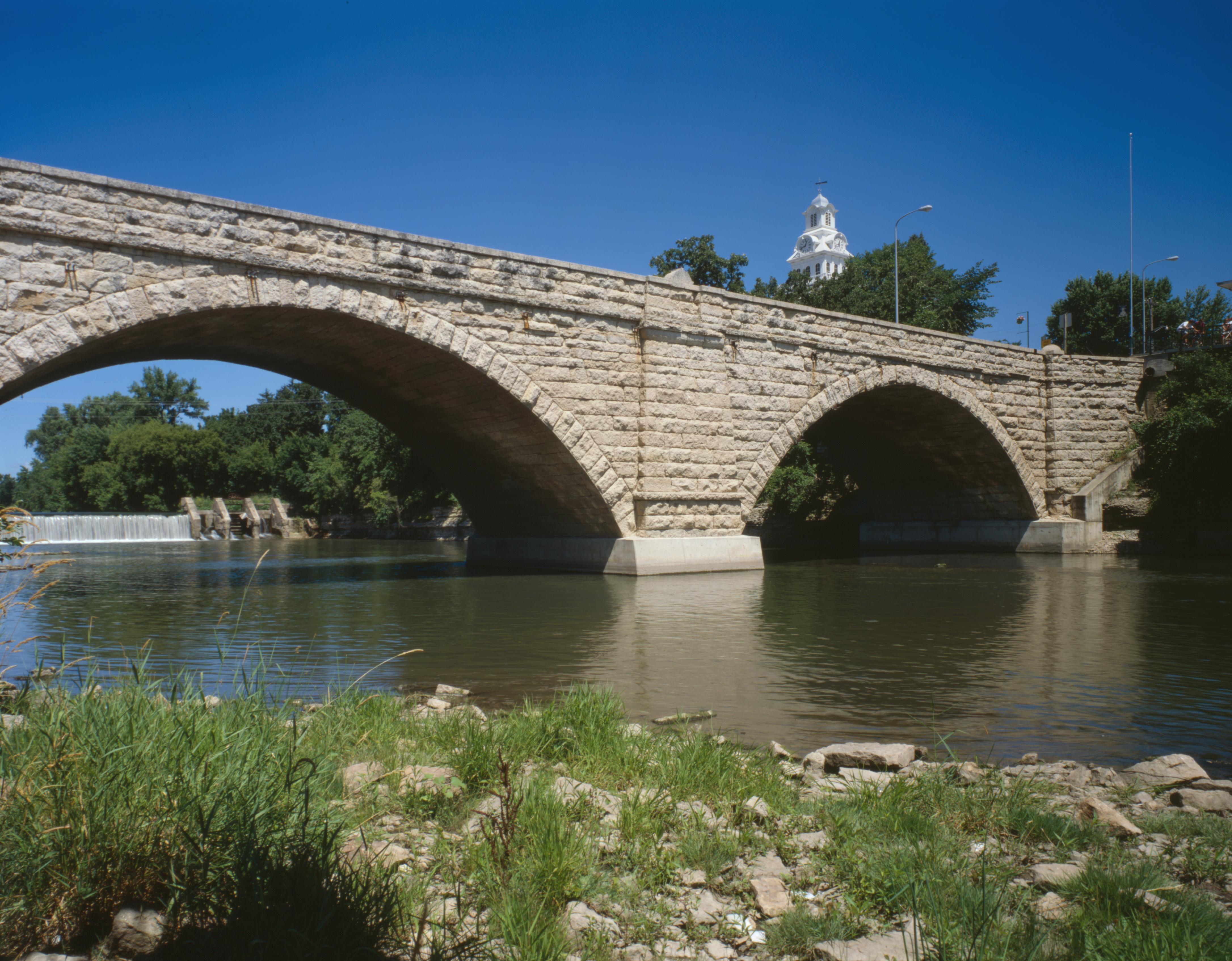 Southern (downsteam) side of the Elkader Keystone Bridge, which carries Bridge Street over the Turkey River at Elkader, Iowa, United States. Built in 1888, it is listed on the National Register of Historic Places. Note the tower of the Clayton County Courthouse, also Register-listed, in the background.